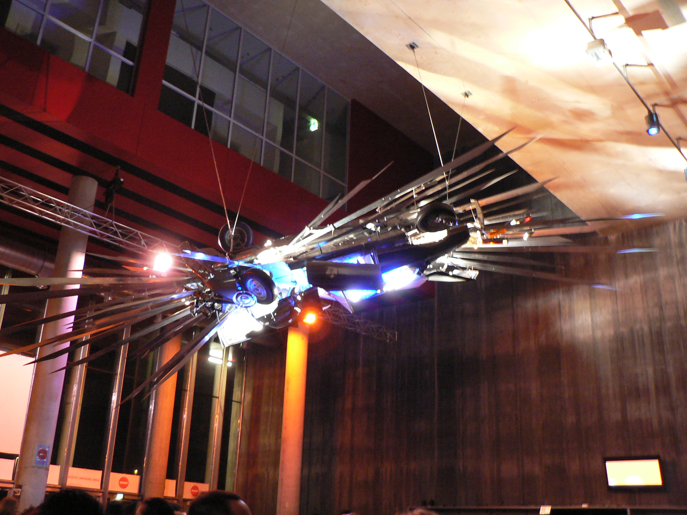 Lounge of the Rockhal at Esch-sur-Alzette